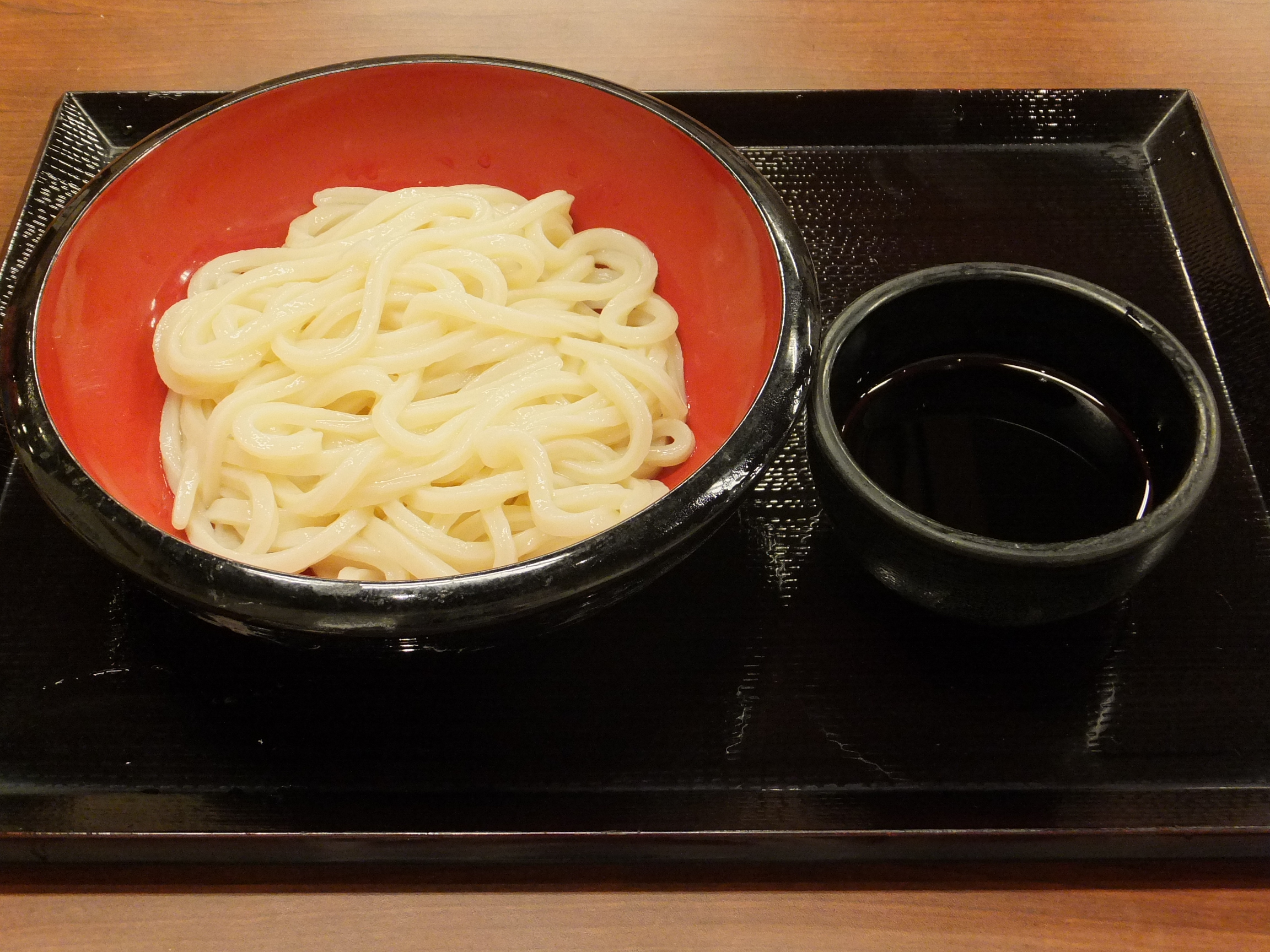 Tsukeudon (つけうどん), at Marugame Seimen (丸亀製麺)